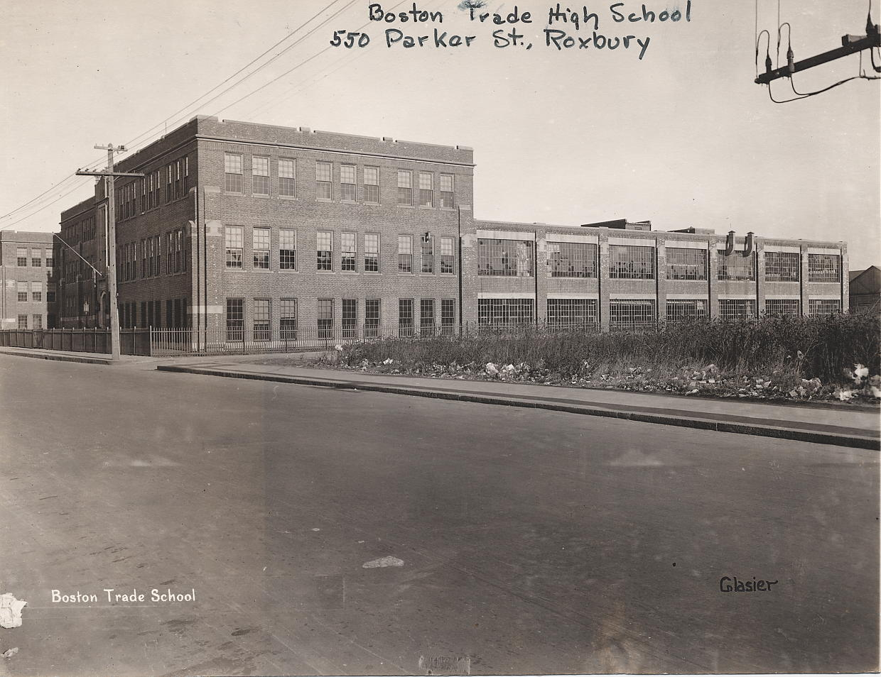 Boston Trade High School: Exterior